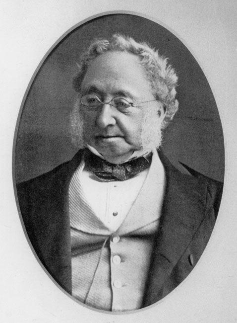 Photograph of Thomas Hawksley from Institution of Mechanical Engineers Website